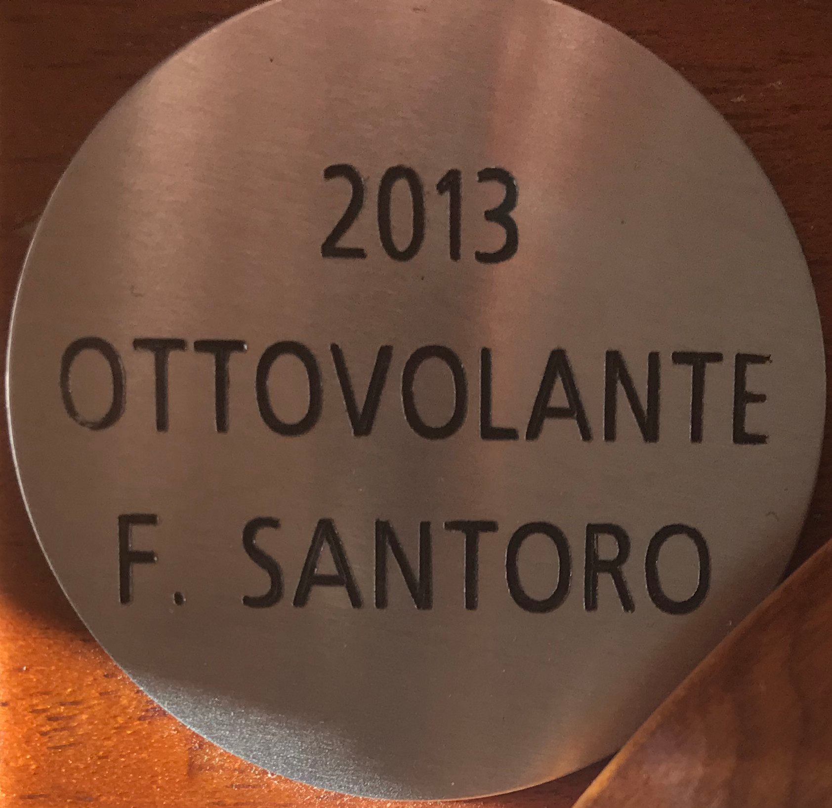 Patch on the trophy